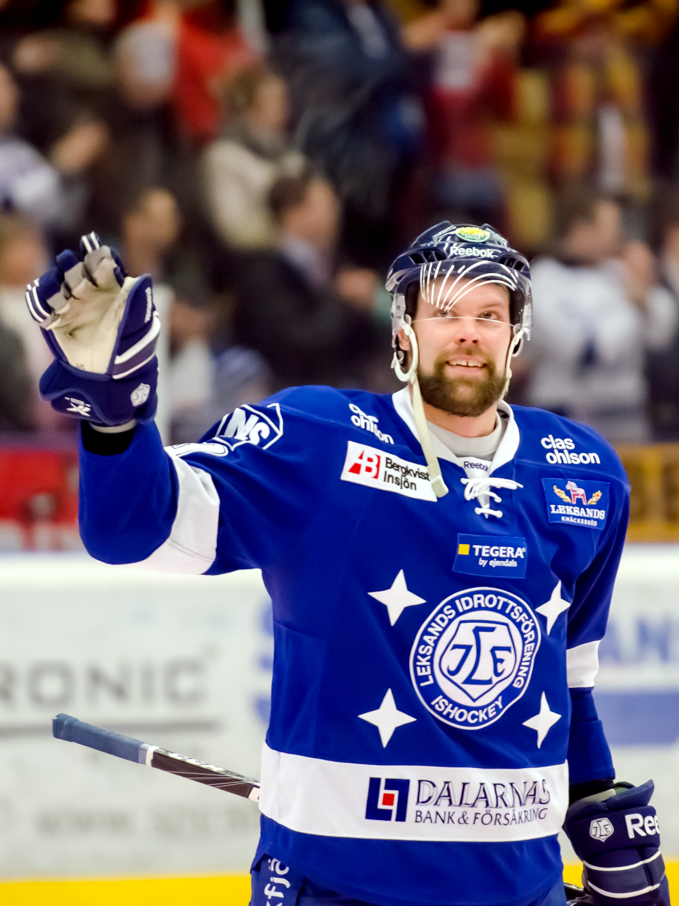 Joonas Rönnberg playing for Leksands IF in Hockeyallsvenskan (Swedish second highest league) against Mora IK 2012-12-29.